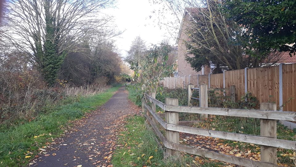 Now a footpath and housing estate named Old Station Close